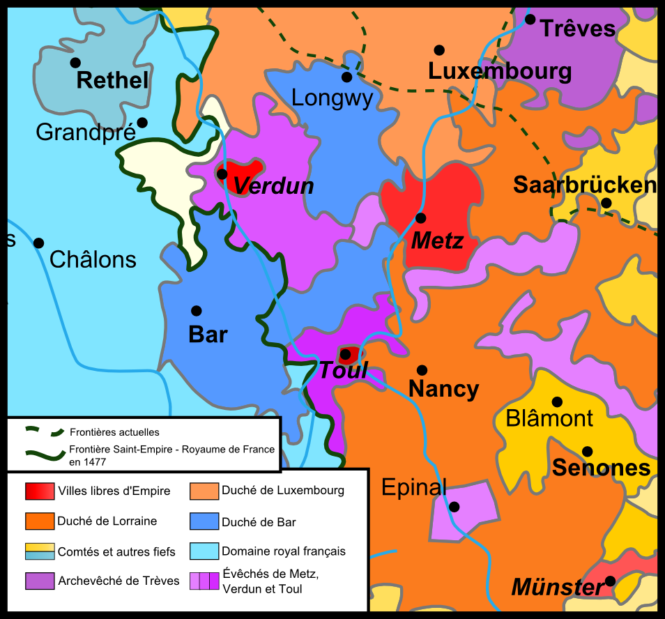 Map of Lorraine ad its confines in the 15th century.